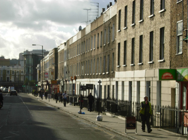 Caledonian Road, King's Cross Something of the spirit of old London in this picture, possibly. Looking along Caledonian Road from the junction with Wharfdale Road.